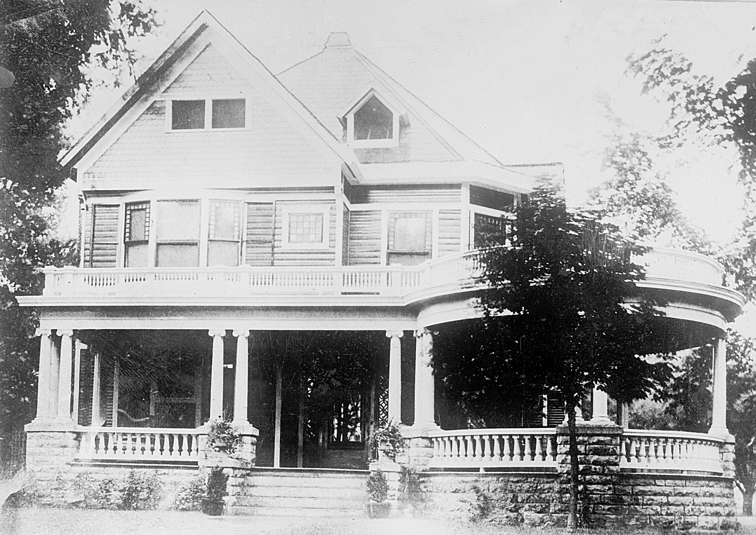 Harding's home in Marion, Ohio where he ran his 1920 Republican Presidential campaign from the front porch.